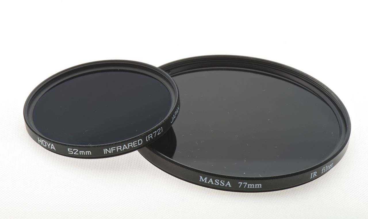 IR transmitting/passing filters (with a little dust on them).